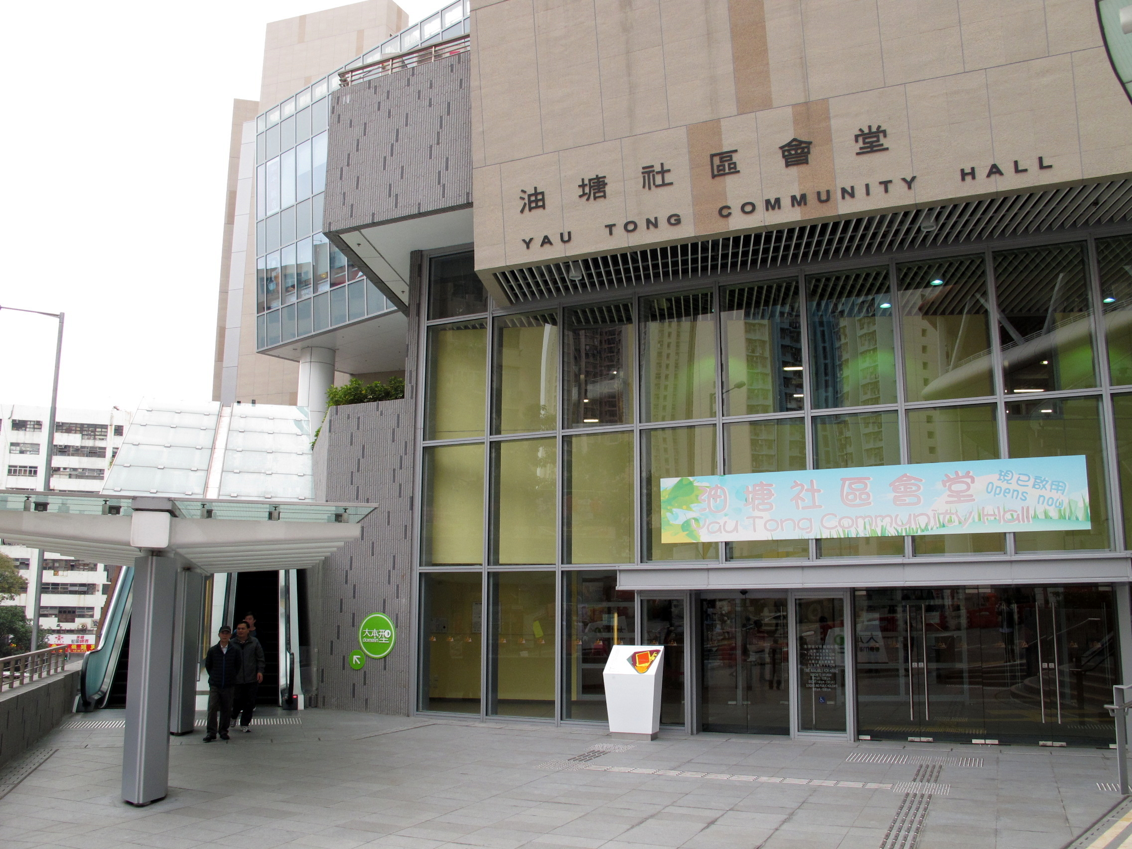 Yau Tong Community Hall 油塘社區會堂